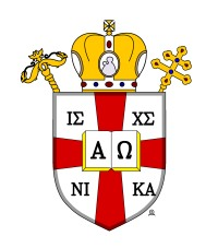 coat of arms